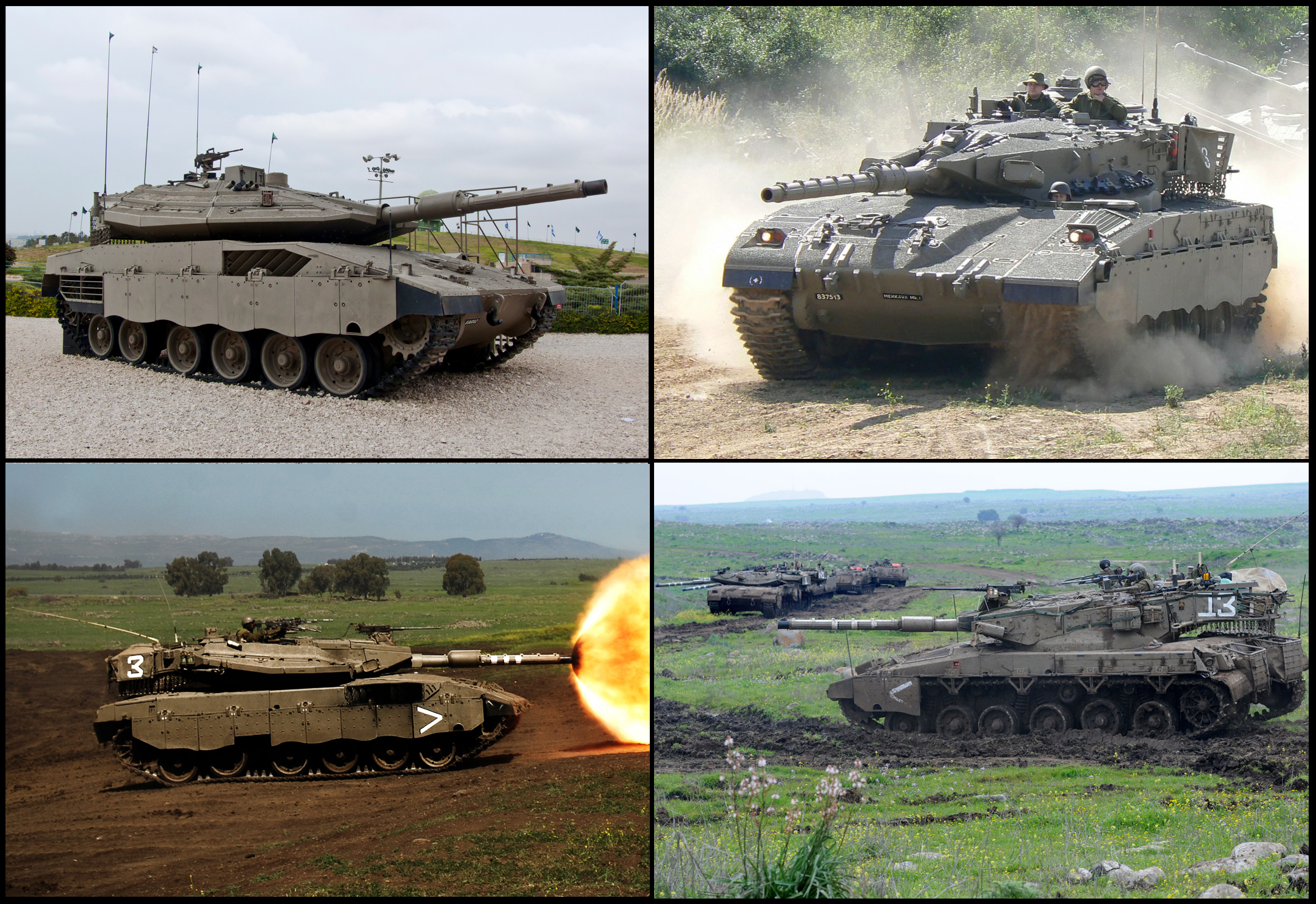 The Israeli Merkava main battle tanks. Clockwise: Mk I, Mk II, Mk III Baz, Mk IV